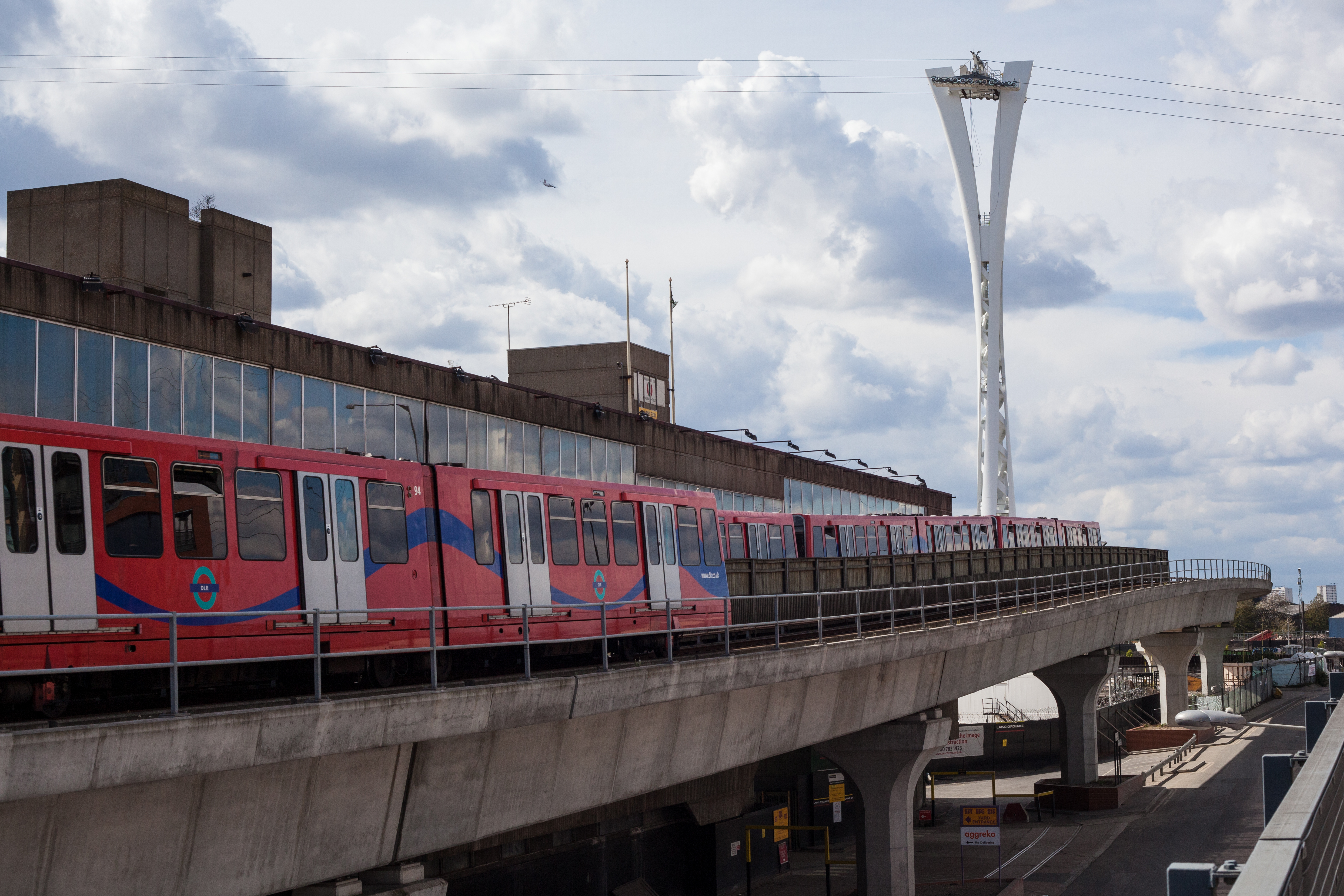 A DLR's train with a tower of the Emirates Air Line in the background